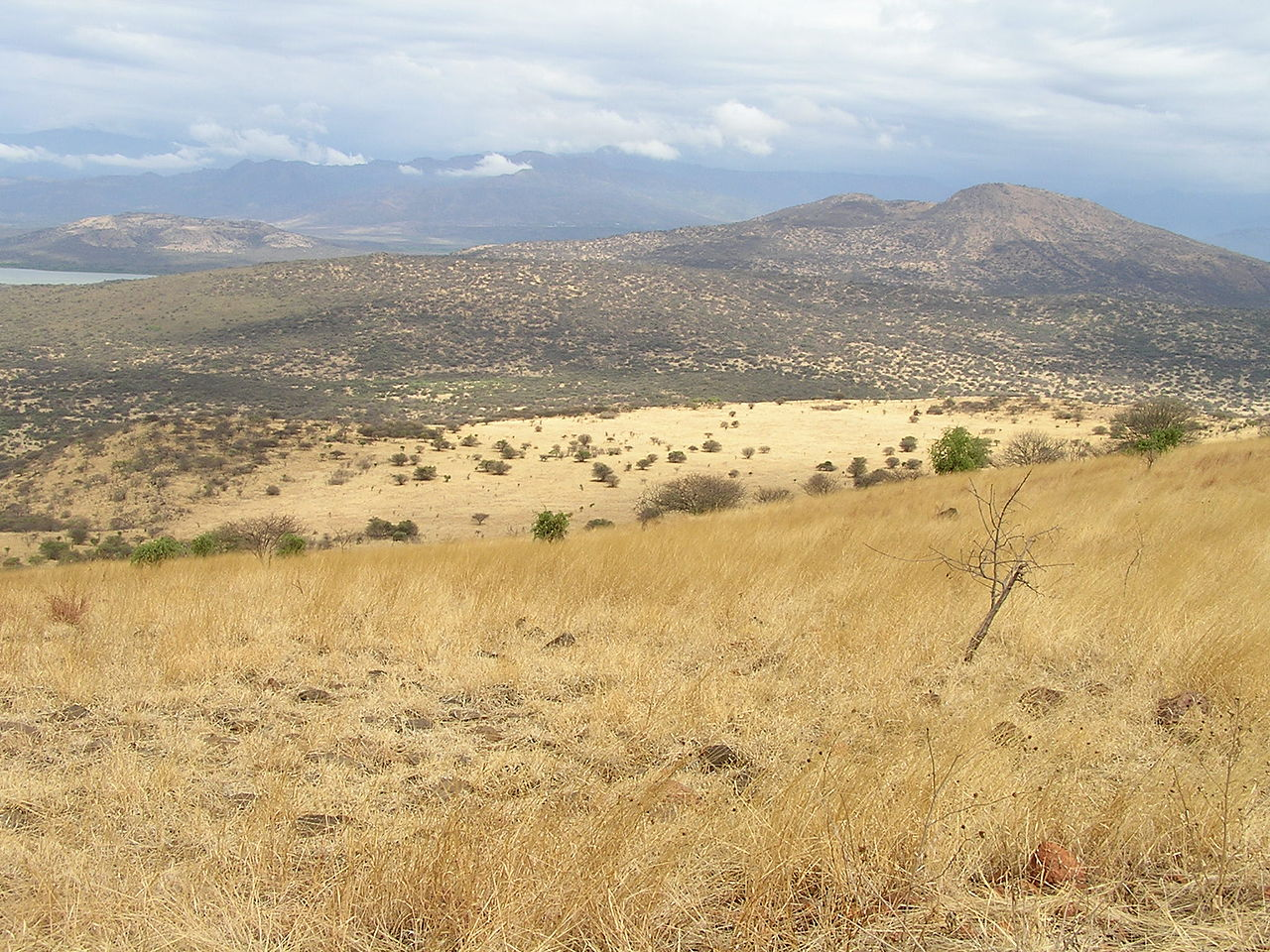 White Grass ("Nech Sar") plains of Nechisar National Park, Ethiopia